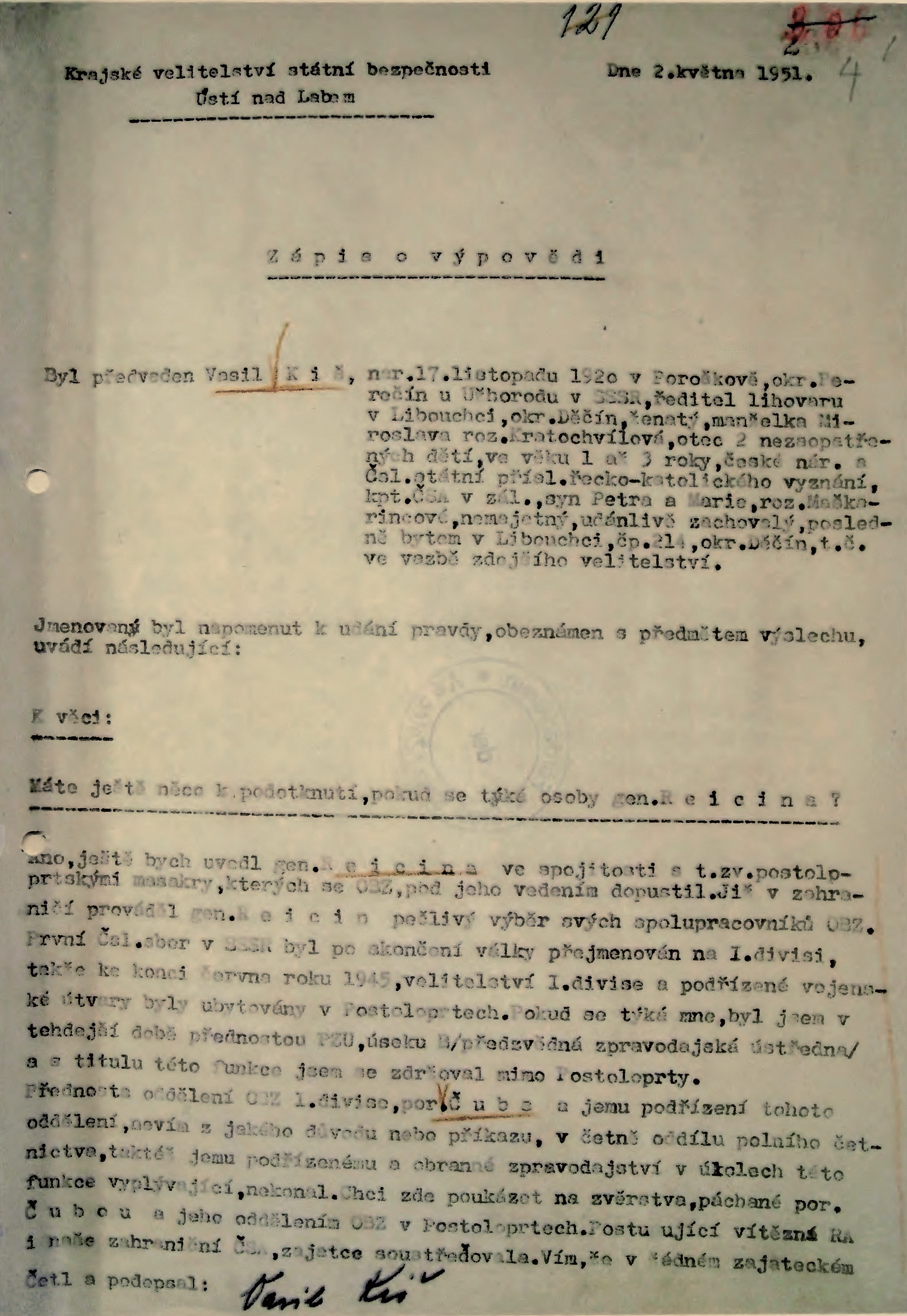 The first page (of three pages) of the testimony of Captain Vasil Kiš (* 1920) in the investigation against the head of the OBZ Bedřich Reicin (* 1911 - † 1952) held on 2 May 1951 at the Regional Headquarters of the State Security in Ústí nad Labem. Vasil Kish, in his testimony, mentioned the role of General Bedrich Reicin in connection with the massacres (in Czech village Postoloprty) committed by OBZ under Reicin's leadership in May and June 1945.